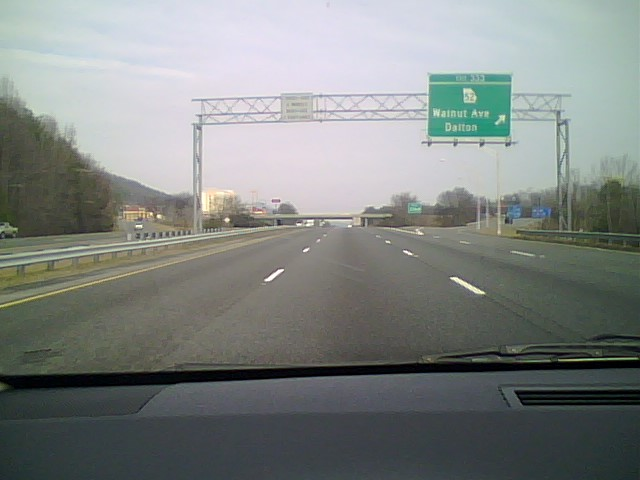 Author: Chris Miller Source: Took picture myself Fair Use: To show Interstate 75 in Georgia going north.